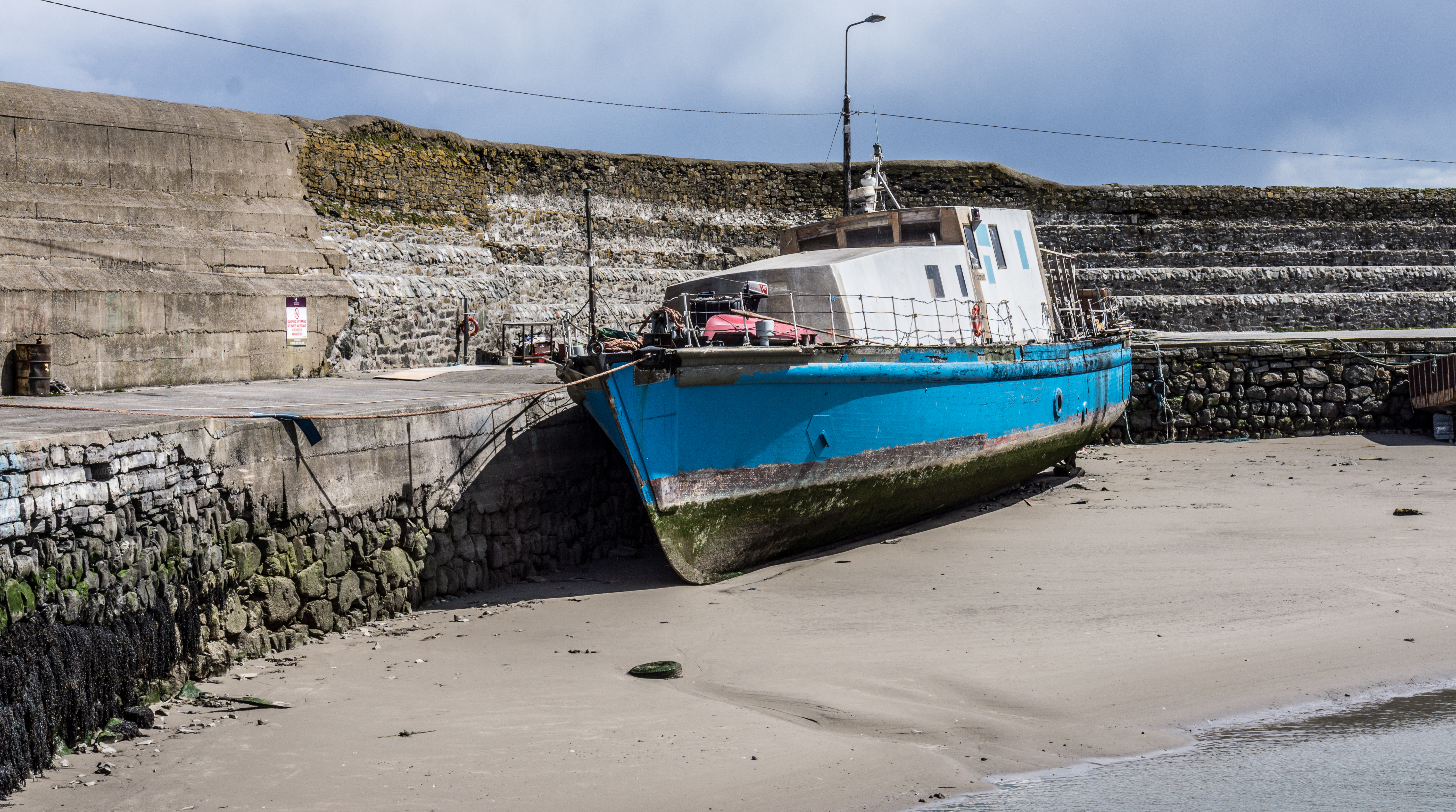 Balbriggan Harbour: The Portisham Is A Privately Owned Minesweeper